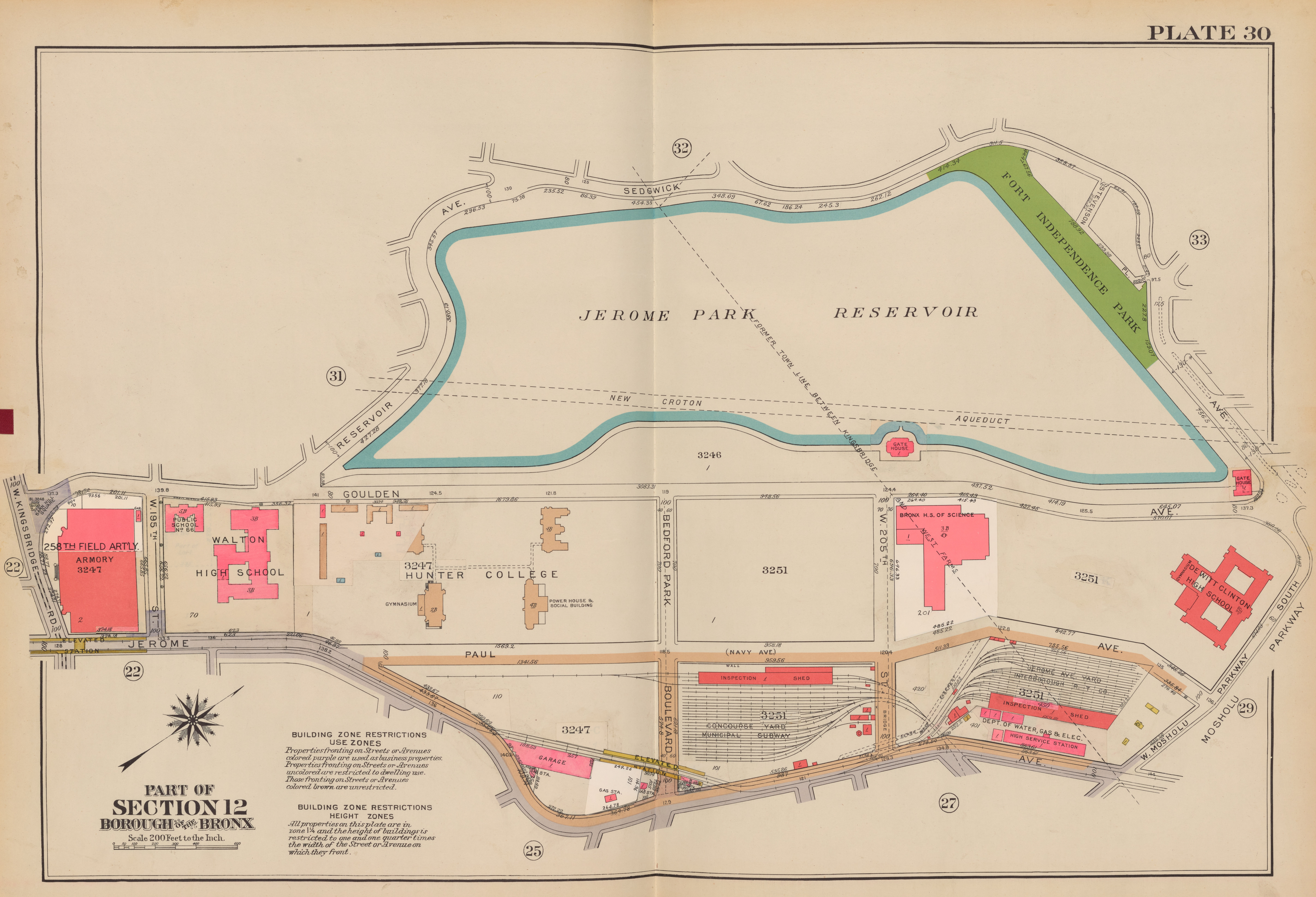 Plate 30 from: Atlas of the City of New York Borough of the Bronx [Volume 2] North of 172nd Street (Philadelphia: G. W. Bromley and Co., 1938) corrected up to November 14, 1957